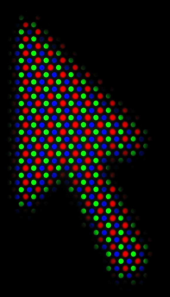 The shadow mask of a 15" CRT monitor (diagonal dot pitch: 0.28 mm) in close-up, showing the cursor. When displayed on the same monitor set to its optimum resolution (1024x768 pixels), the final photo has a magnification of about 40x. Photo taken with a Canon Powershot A95 camera and some additional equipment (a Pentax K mount 50 mm f:1.7 lens and a simple convex lens taken off a magnifying glass) to achieve the magnification.